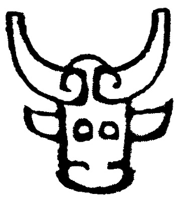 This is my own CGI reconstruction of an ox clan emblem from a Shang dynasty bronze vessel.